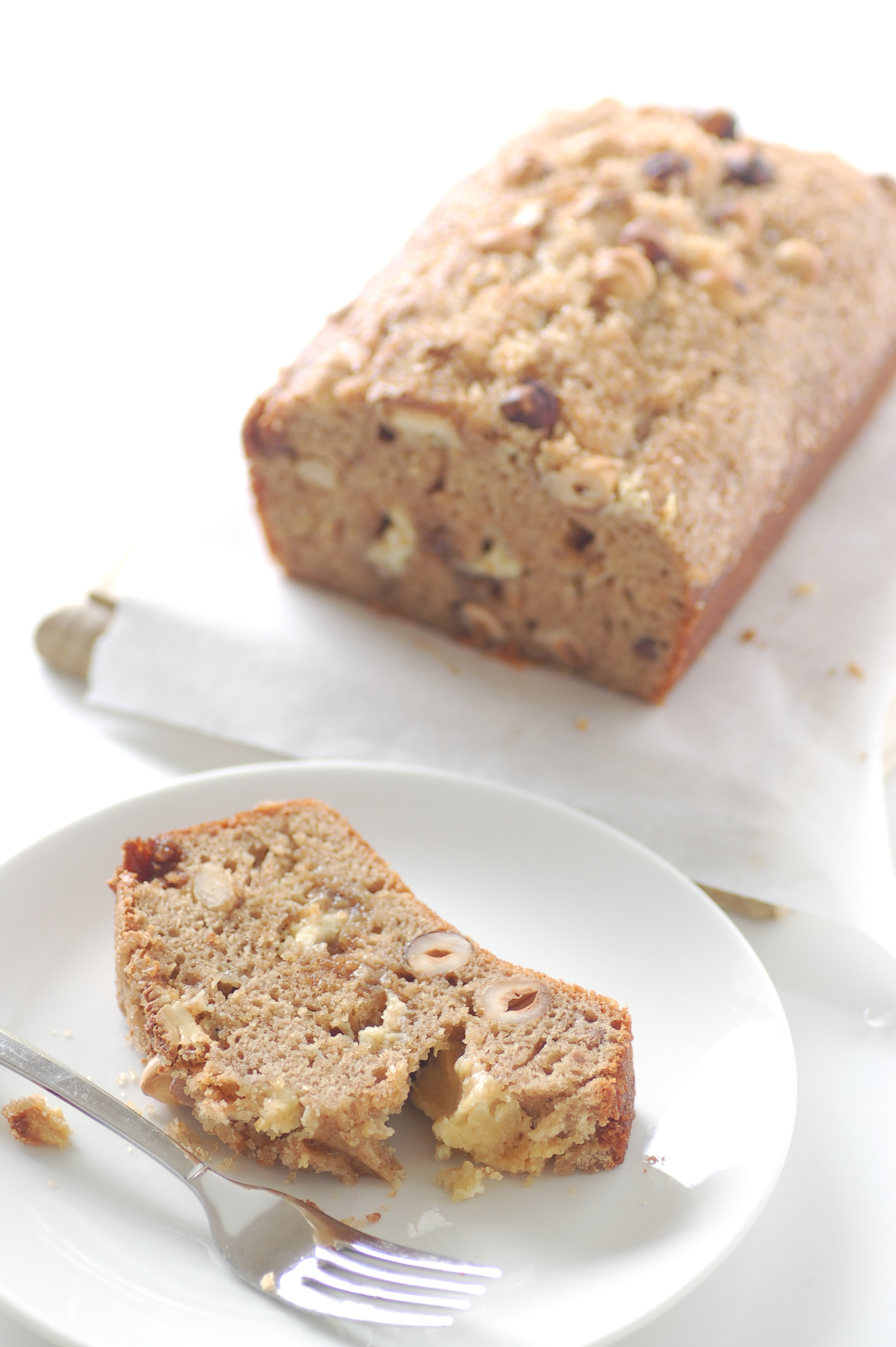 Banana bread - recipe at stonesoup.